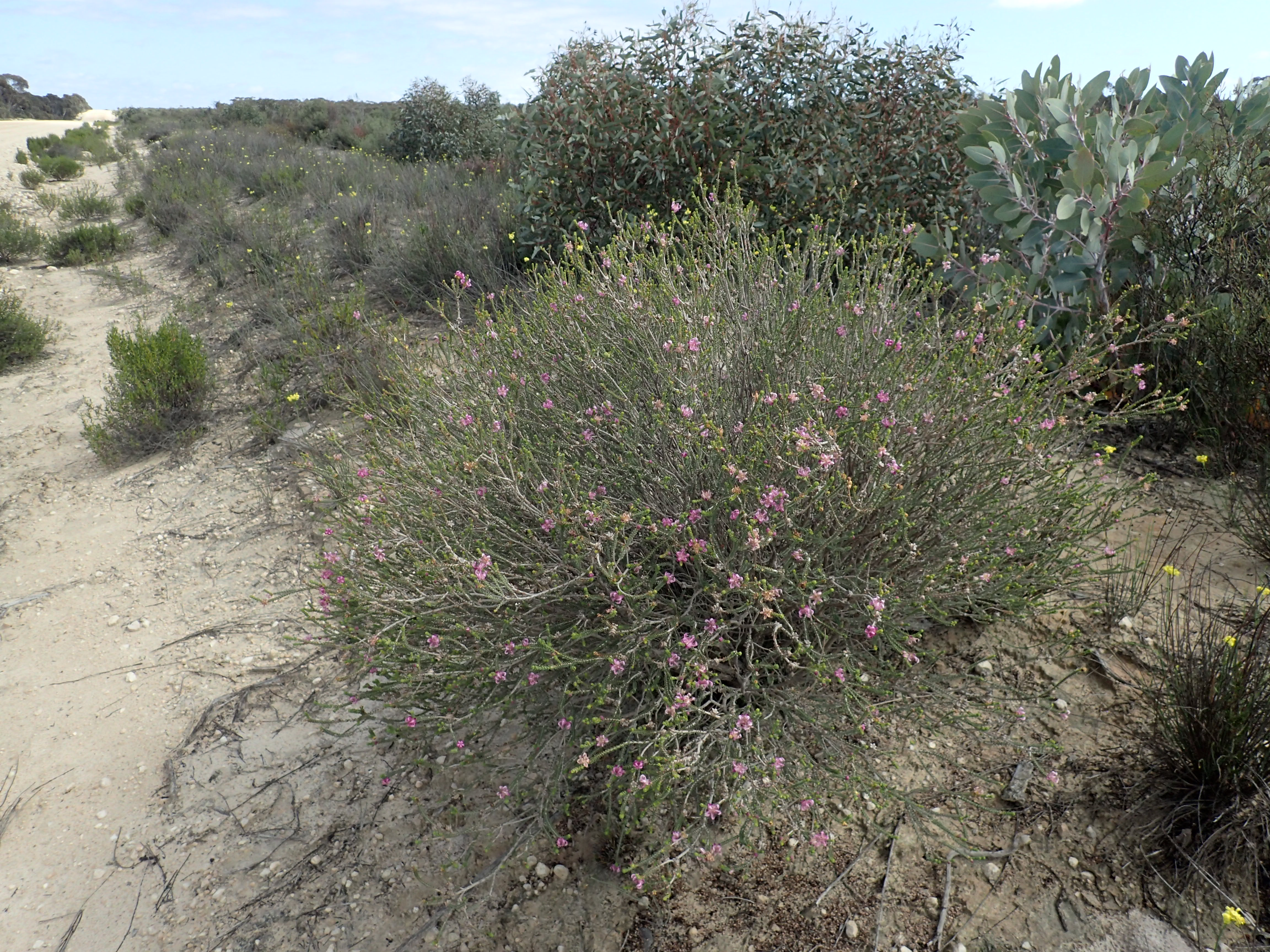 Melaleuca pulchella growing near Norwood Road in the Wittenoom Hills